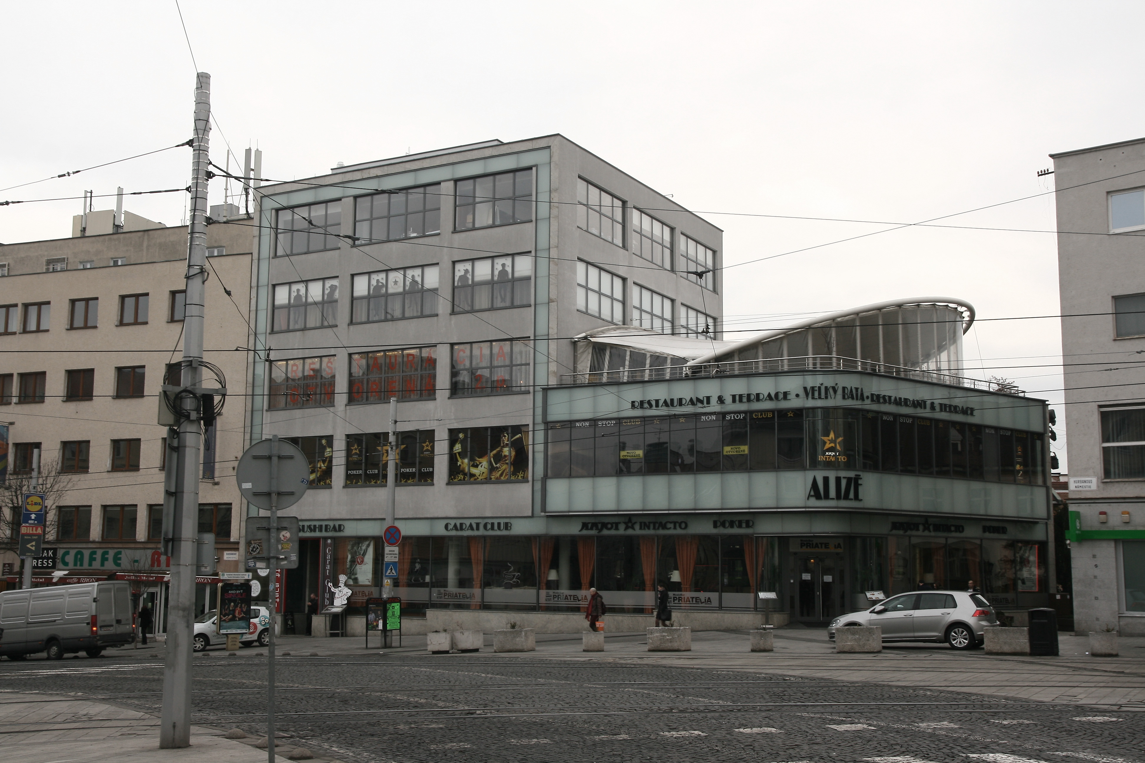 Baťa Department Store in Bratislava, Slovakia. Functionalist architecture from 1930 by architect Vladimír Karfík.